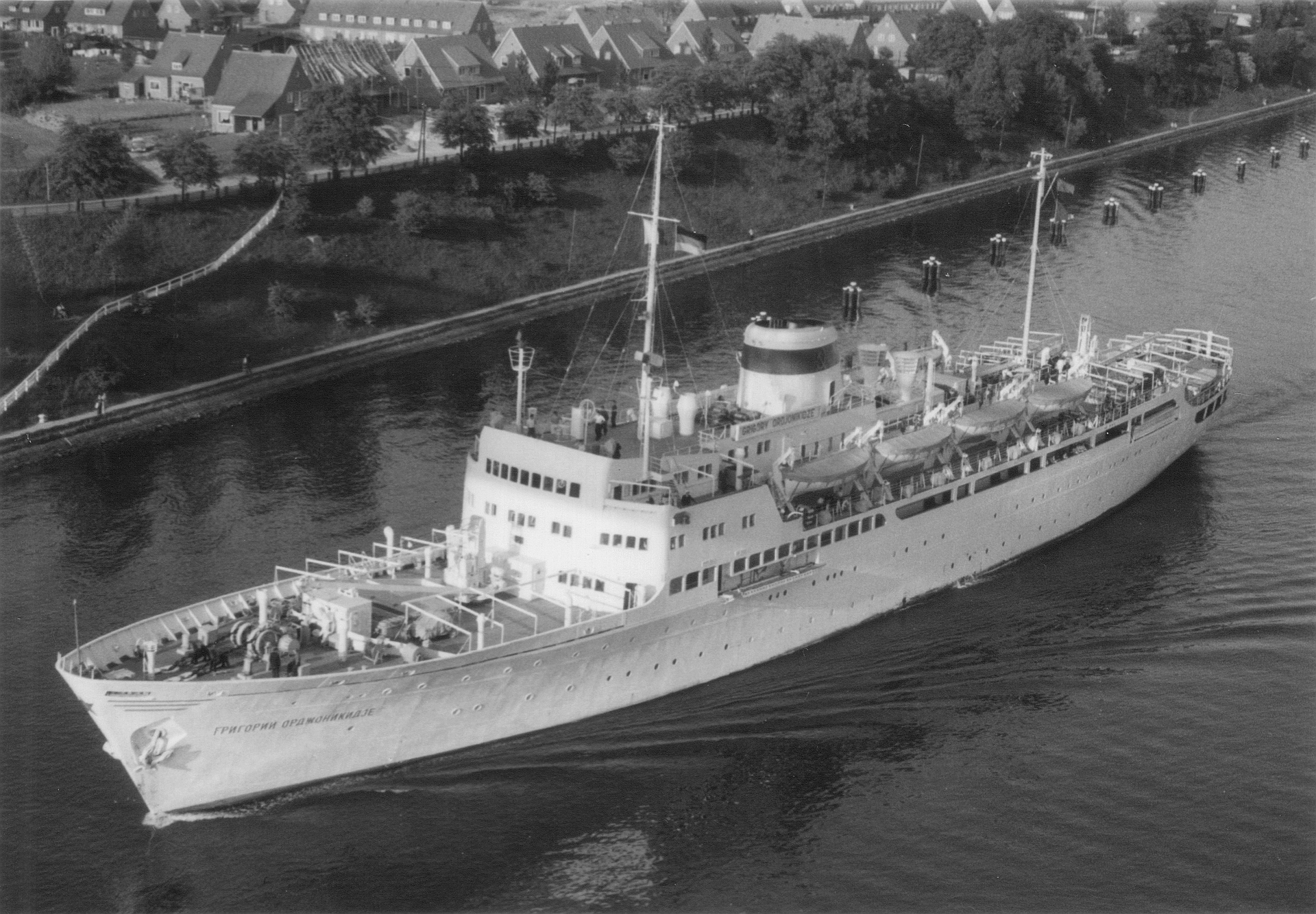 Soviet passenger ship Grigoriy Ordzhonikidze, Kiel-Holtenau, Kiel-Canal, westbound